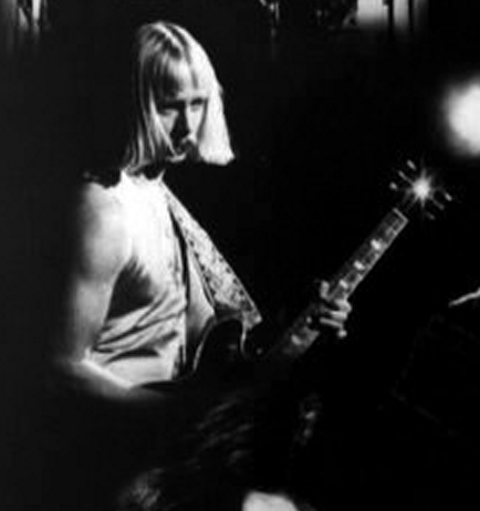 Kerry Livgren of Kansas in a 1976 publicity photo